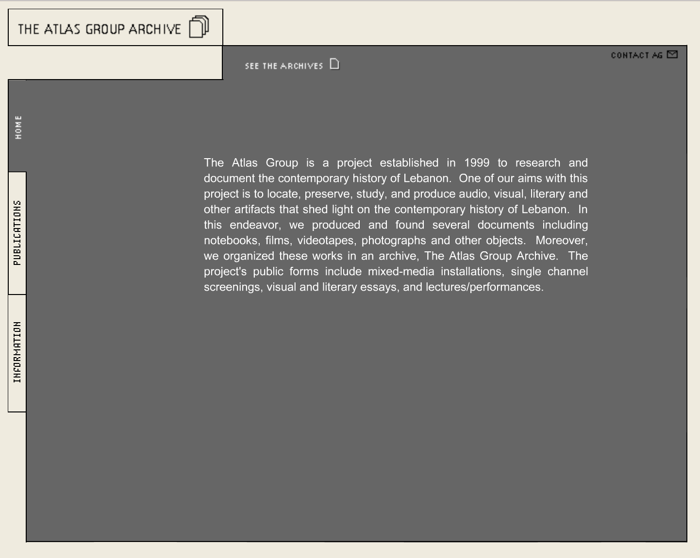 Title page, screenshot.